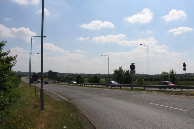 A6 towards Leicester. Several miles of the A6 were made into a new dual carriageway to bypass Soar Valley villages such as Rothley, Quorn and Mountsorrel.